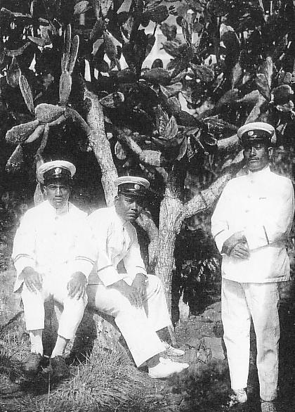 Jokyoin(native teacher) and Junkei(native constable)